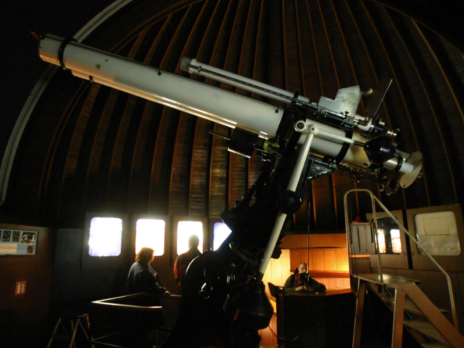 Double refractor made by Zeiss in 1908, consisting of a photographic reafractor with 210mm aperture and a visual refractor with 180mm aperture. Both instruments have a focal length of 3400mm. This instrument was first used by König in Vienna, and was relocated to the Štefánik Observatory in Prague in 1928, where it is still in use today.